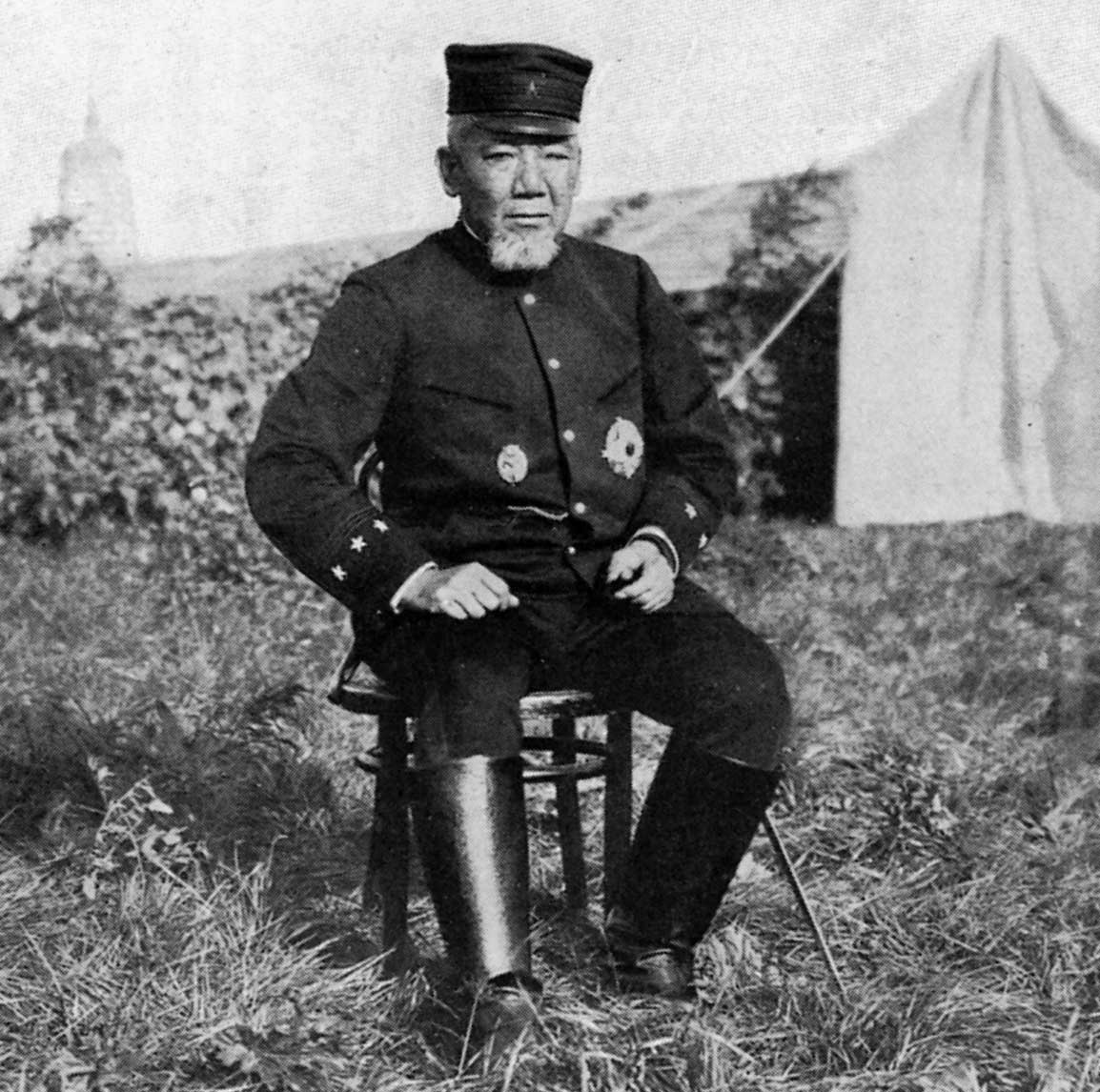 Iwao Oyama, Commandor of the IJA Manchurian Army during the Russo-Japanese War.